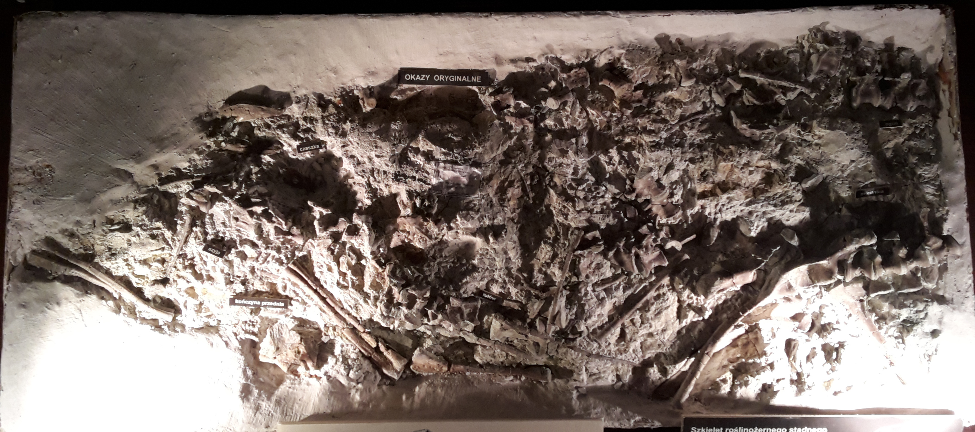 Silesaurus opolensis holotype ZPAL Ab III/361, Museum of Evolution of Polish Academy of Sciences, Warsaw.